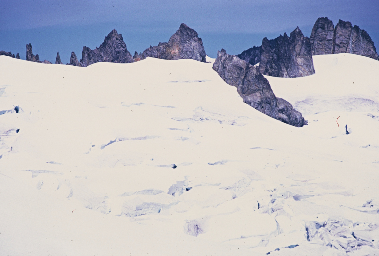 Tepeh Towers and Inspiration Glacier. North Cascades National Park